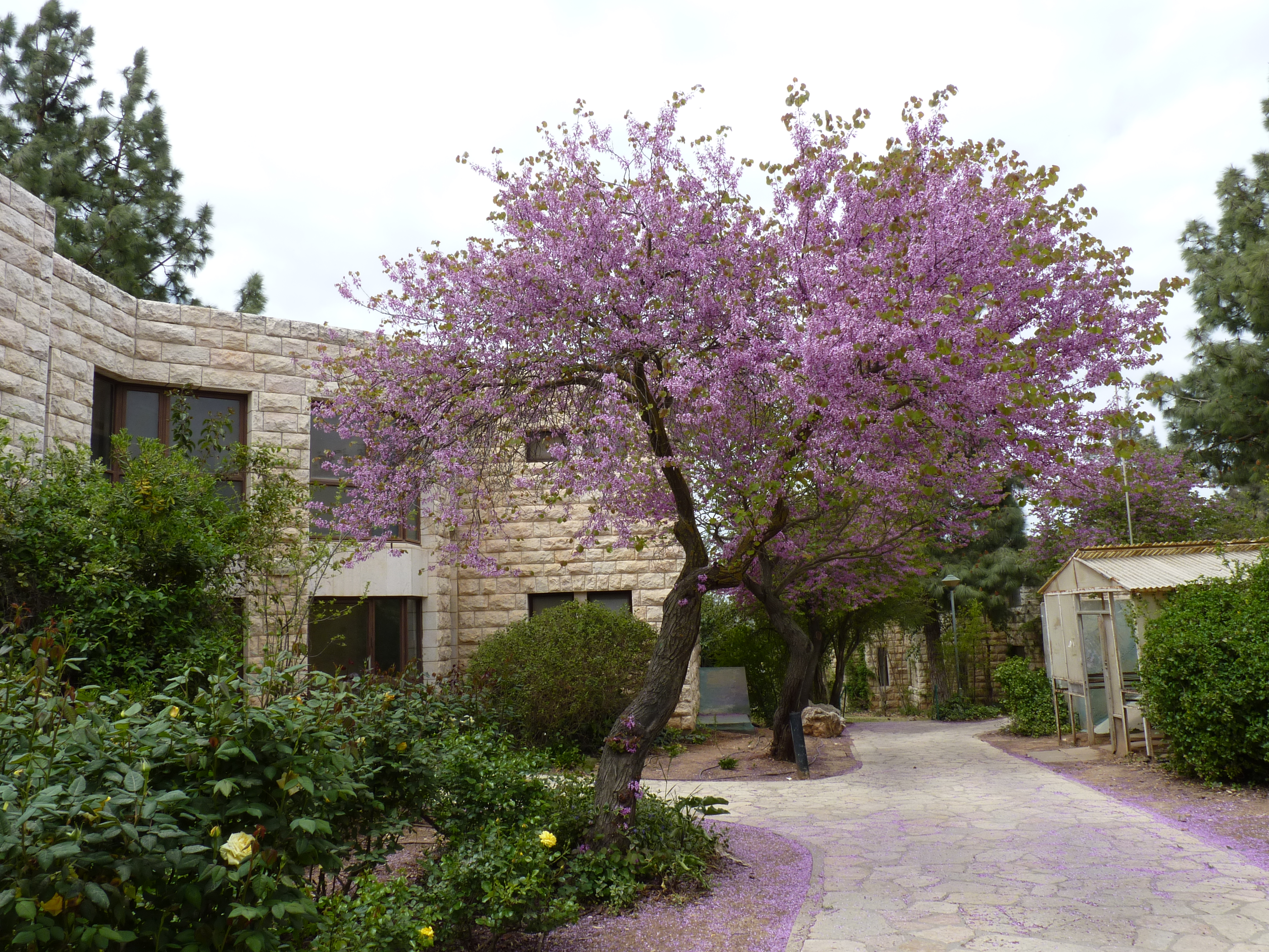 P1110796 Alon Shvut - Spring 2012